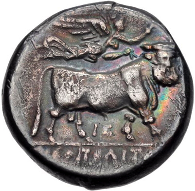 Italy, Campania, Neapolis. Circa 275-250 BC. AR Nomos (19mm, 6.98 g, 1h). Man-headed bull walking right; above, Nike flying right, placing wreath on bull's head; IΣ below. Sambon 519; HN Italy 586. VF, deeply toned, iridescent, minor roughness. From the Colin E. Pitchfork Collection.